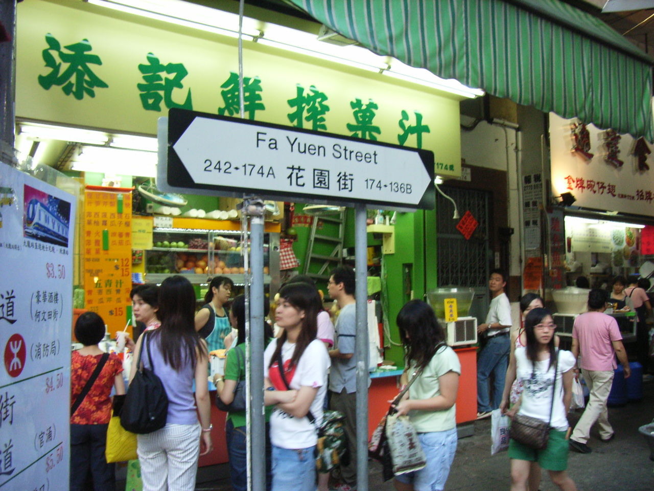 Fa Yuen Street, Kowloon Photo by TonySKTO